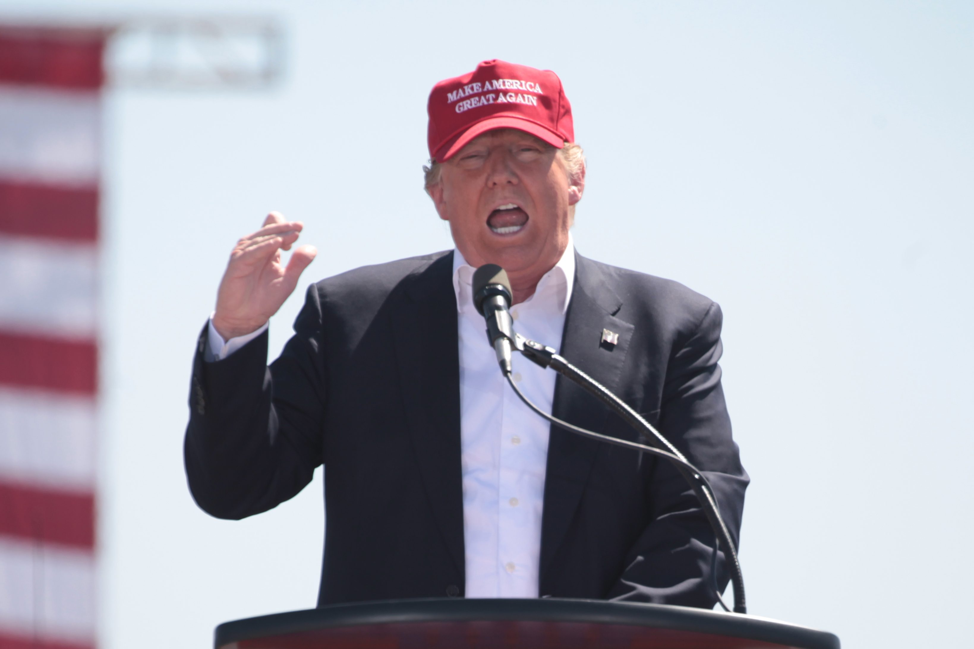 Donald Trump speaking with supporters at a campaign rally at Fountain Park in Fountain Hills, Arizona